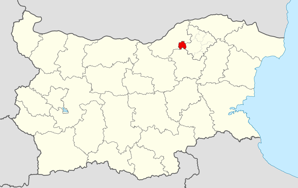 Location map of Tsar Kaloyan Municipality within Bulgaria and Razgrad Province. Equirectangular projection, N/S stretching 130 %. Geographic limits of the map: N: 44.4° N S: 41.1° N W: 22.1° E E: 28.9° E